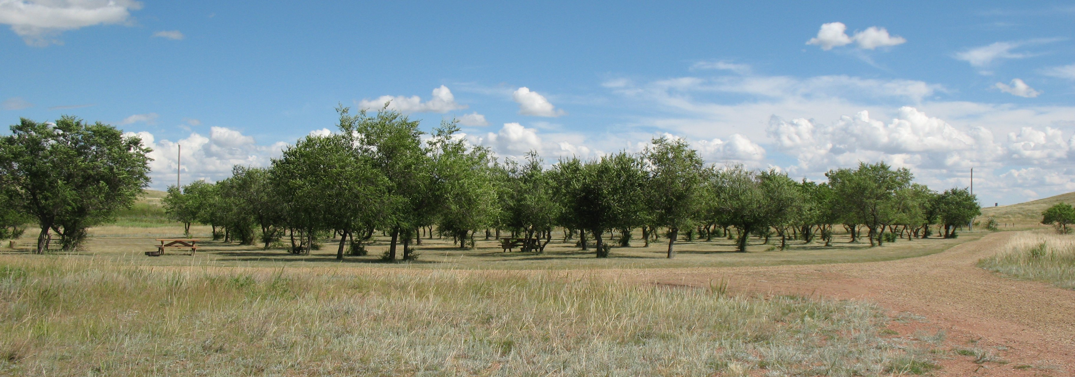 Campsites at the Little Fish Lake Provincial Park, Alberta.